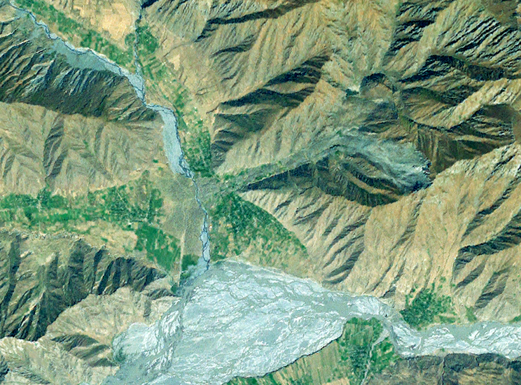 Screen capture from NASA World Wind software of the Khait landslide in Tajikistan that occurred on 10 July 1949. The scar at the head of the slide is visible just to the right of the centre of the picture with the landslide deposit seen on both sides of the Obi-Kabud River